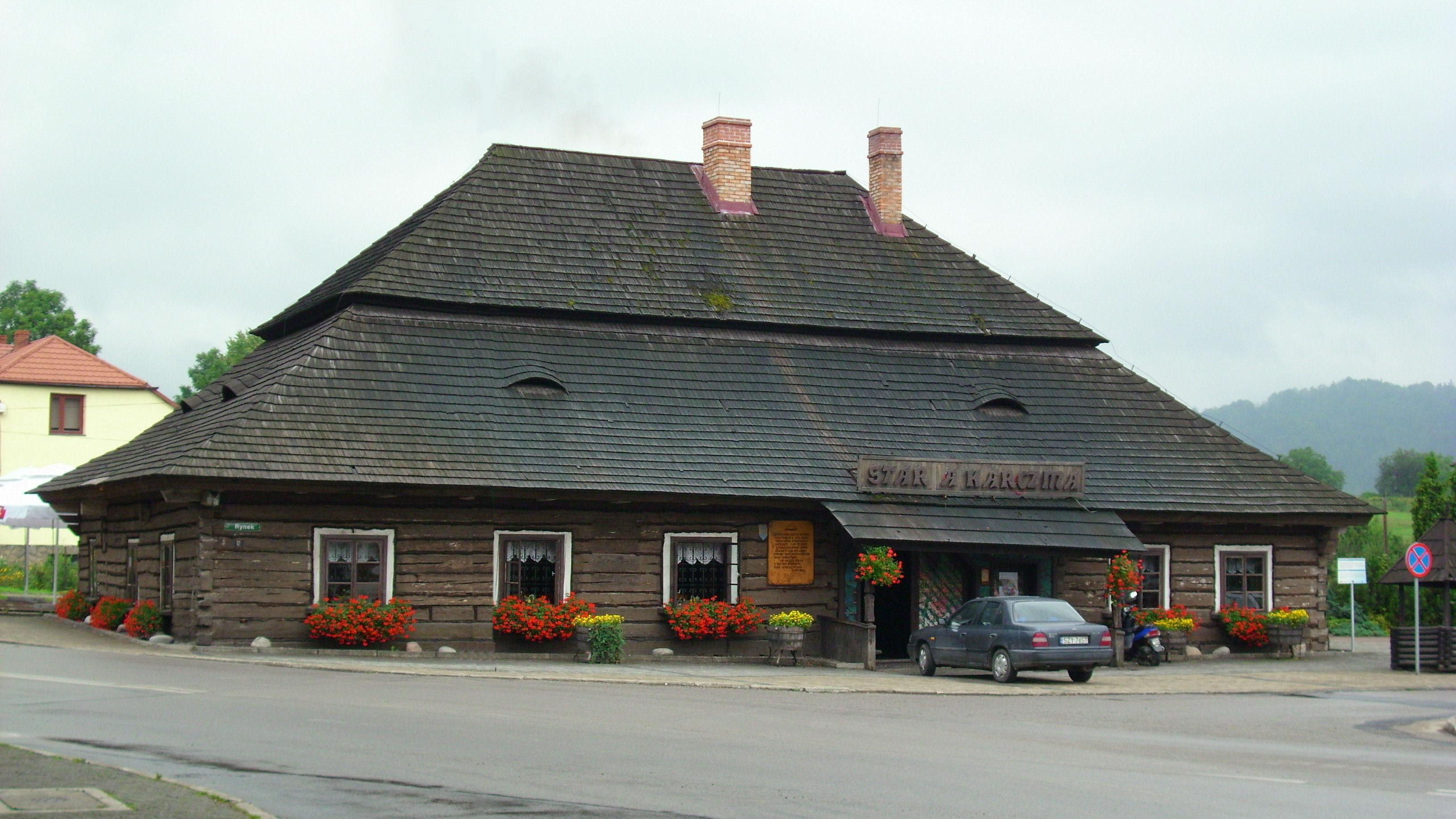 The Old Inn in Jeleśnia